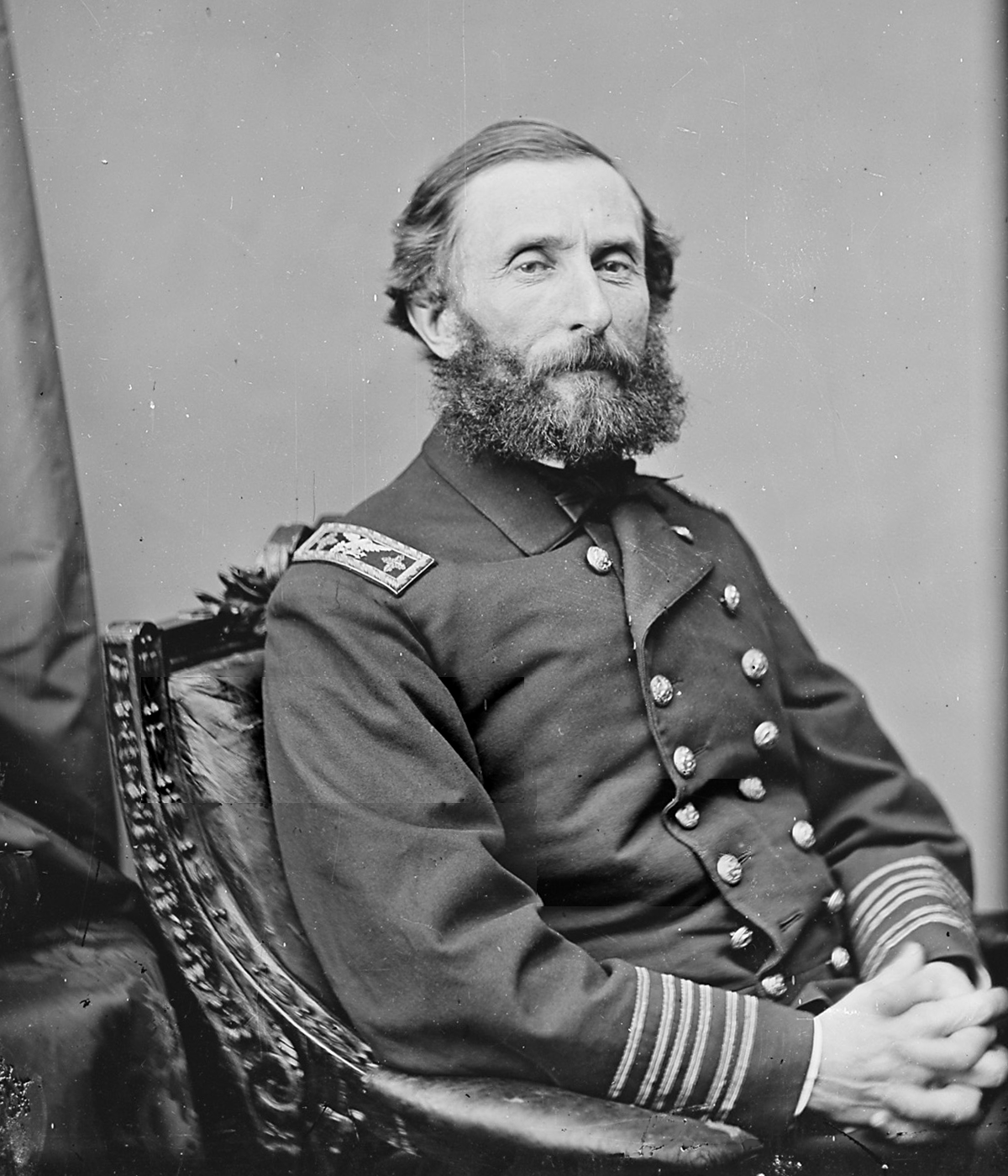 Depicted person: James Wilson King – United States Navy